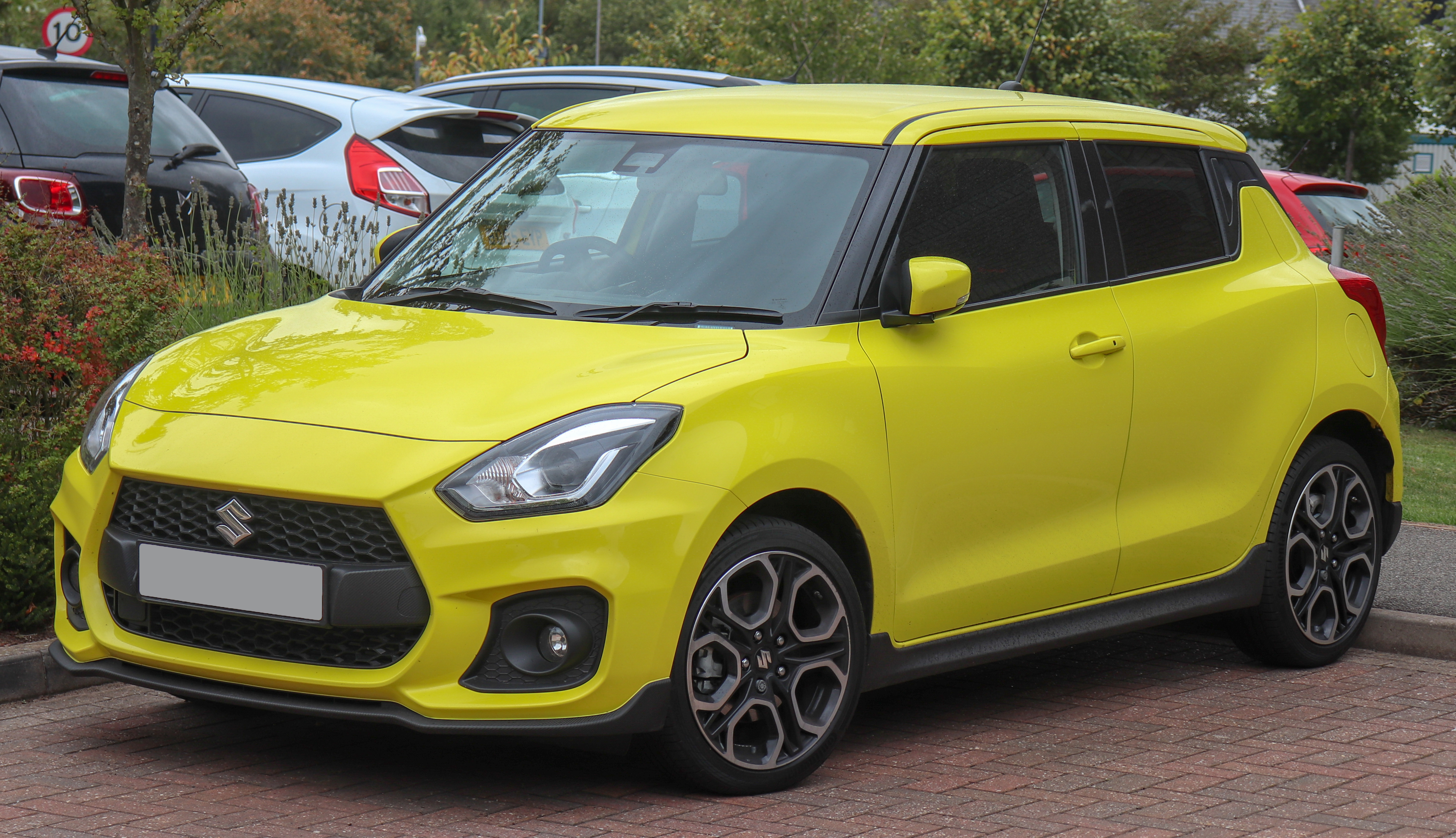 2018 Suzuki Swift Sport Boosterjet 1.4 Taken in Warwick